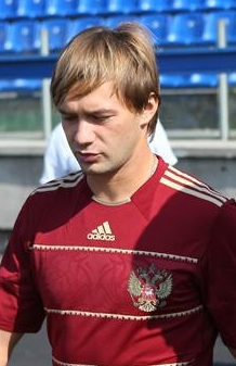 Dmitry Sychev with Russia national team